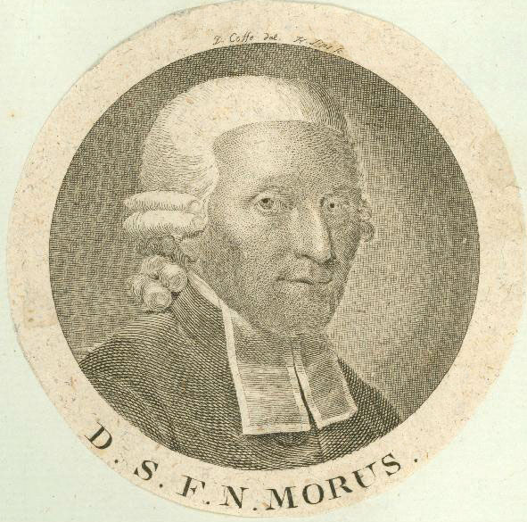 Samuel Friedrich Nathanael Morus (1736-1792) Protestant theologian from Germany